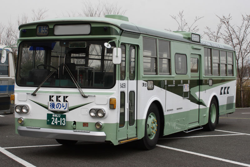 Ex-Kokusai Kogyo's route bus (Car No.3491 / Isuzu BU04 / Kawasaki body) at parking lot of Saitama Stadium 2002 (BU Bus Farewell Event), Midori-ku, Saitama, Saitama, Japan.